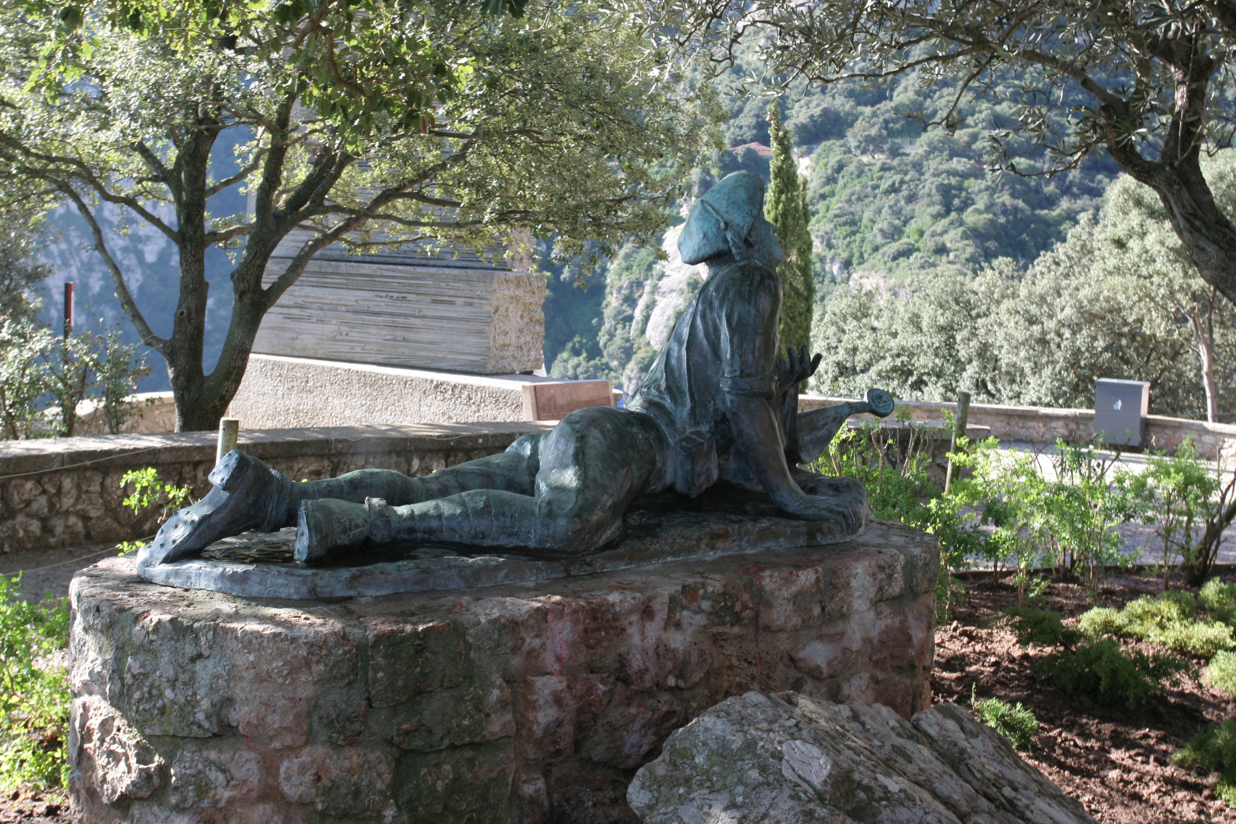 monument to the Tercio de Nuestra Señora de Montserrat soldiers in the Montserrat complex, unveiled in 1965, see La Vanguardia 02.05.65, available here. The original composition might be seen here. Note remnants of red paint on the plinth and compare here